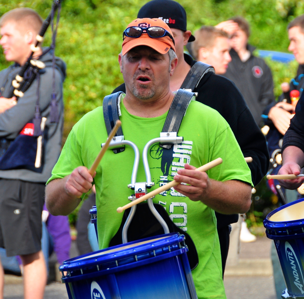 Cropped version